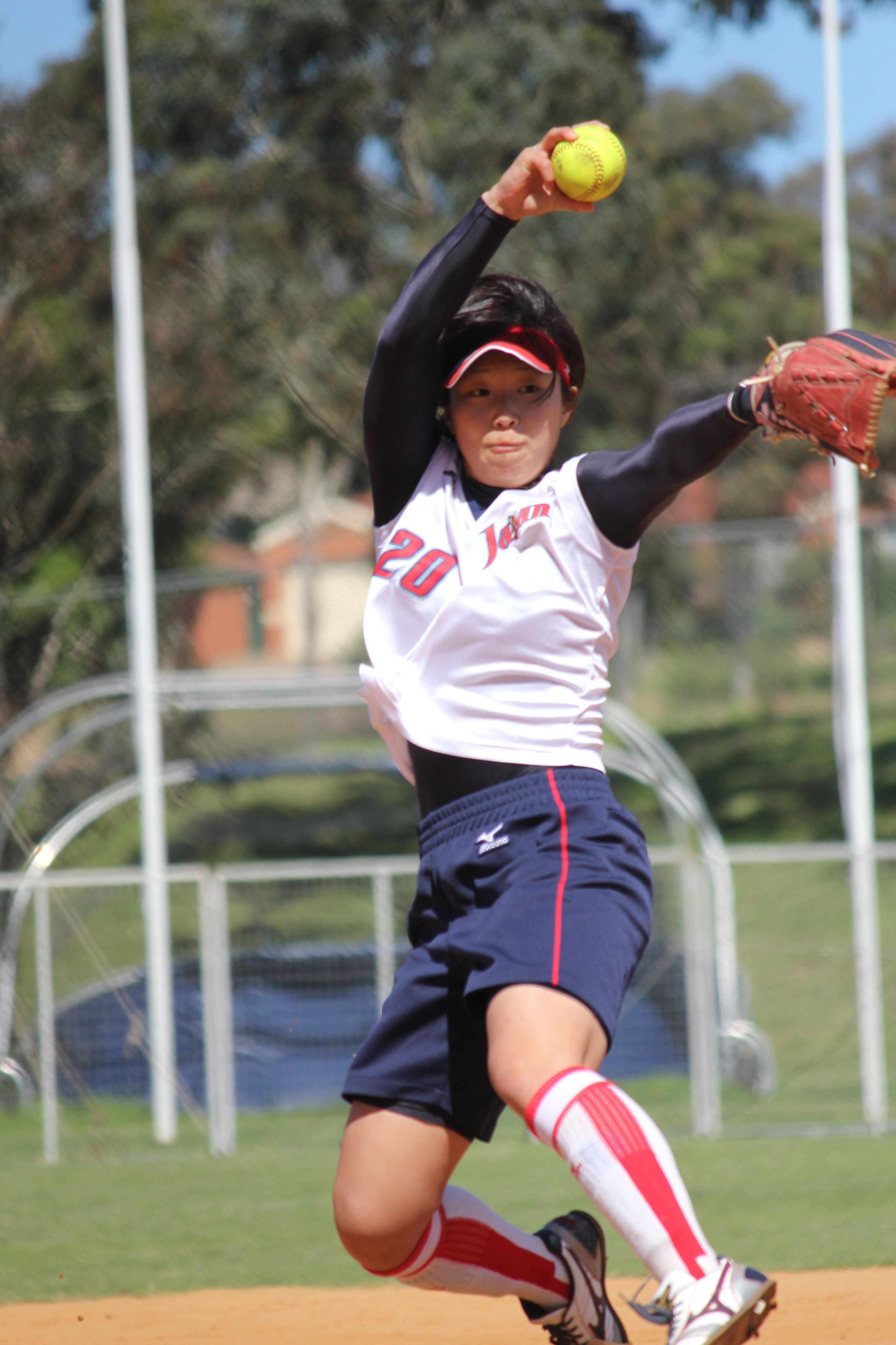 Australia v Japan on 24 March 2012 at Hawker International Softball Centre.